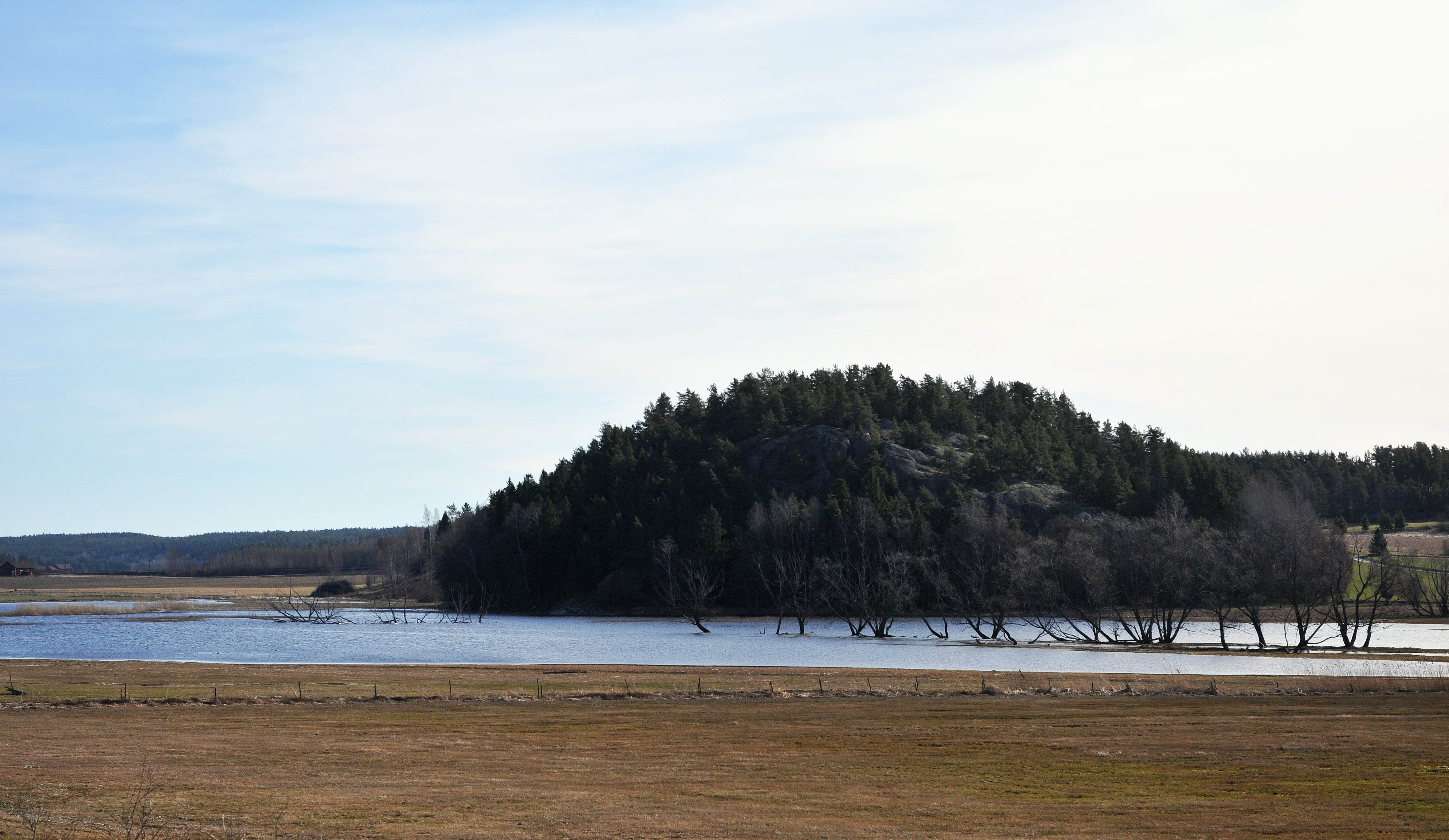 Lake Hannsjön in Nyköping Municipality.